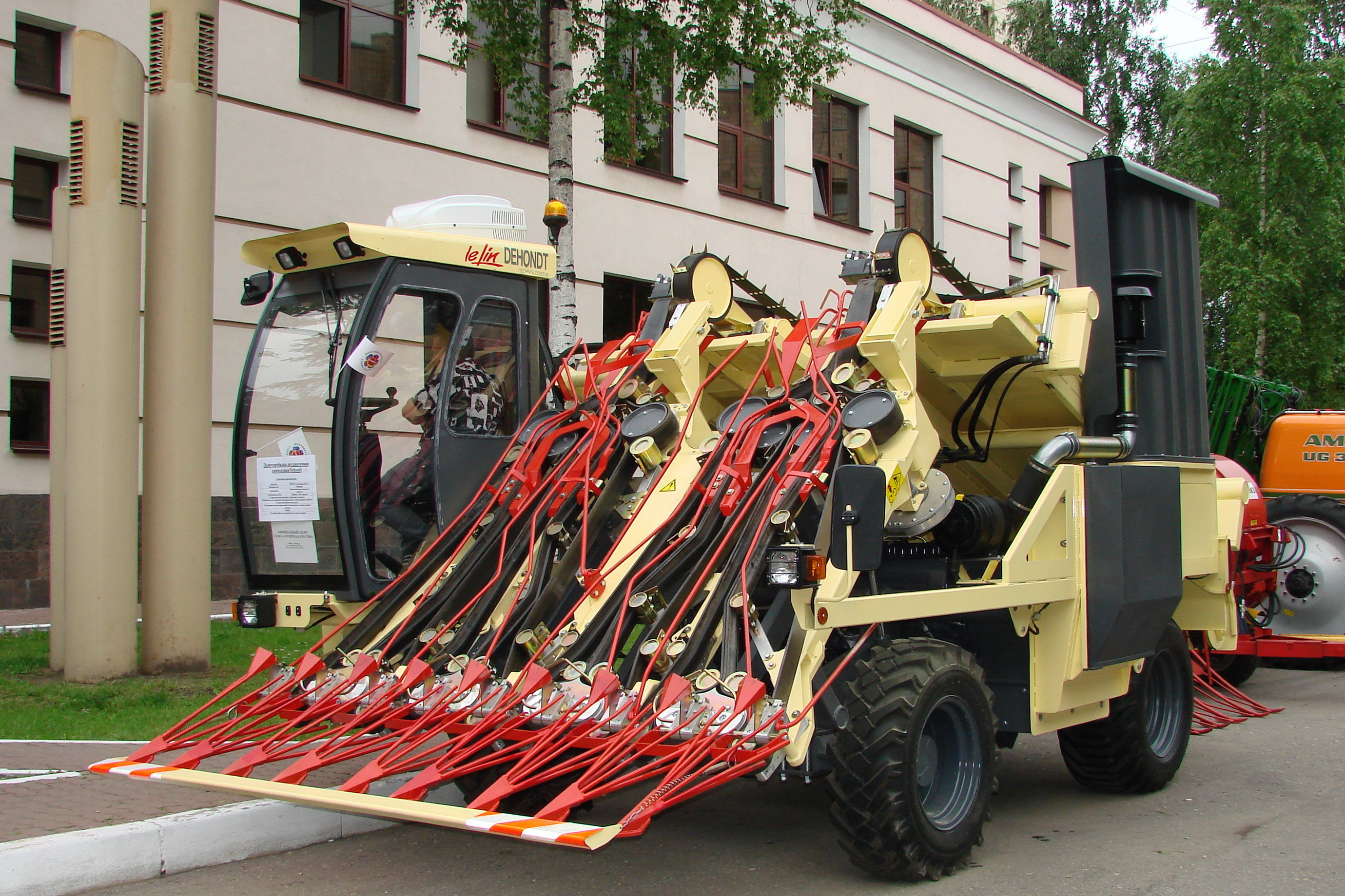 Russia, Vologda, Exhibition-Fair «Russian flax», flax puller Dehondt for flax uprooting